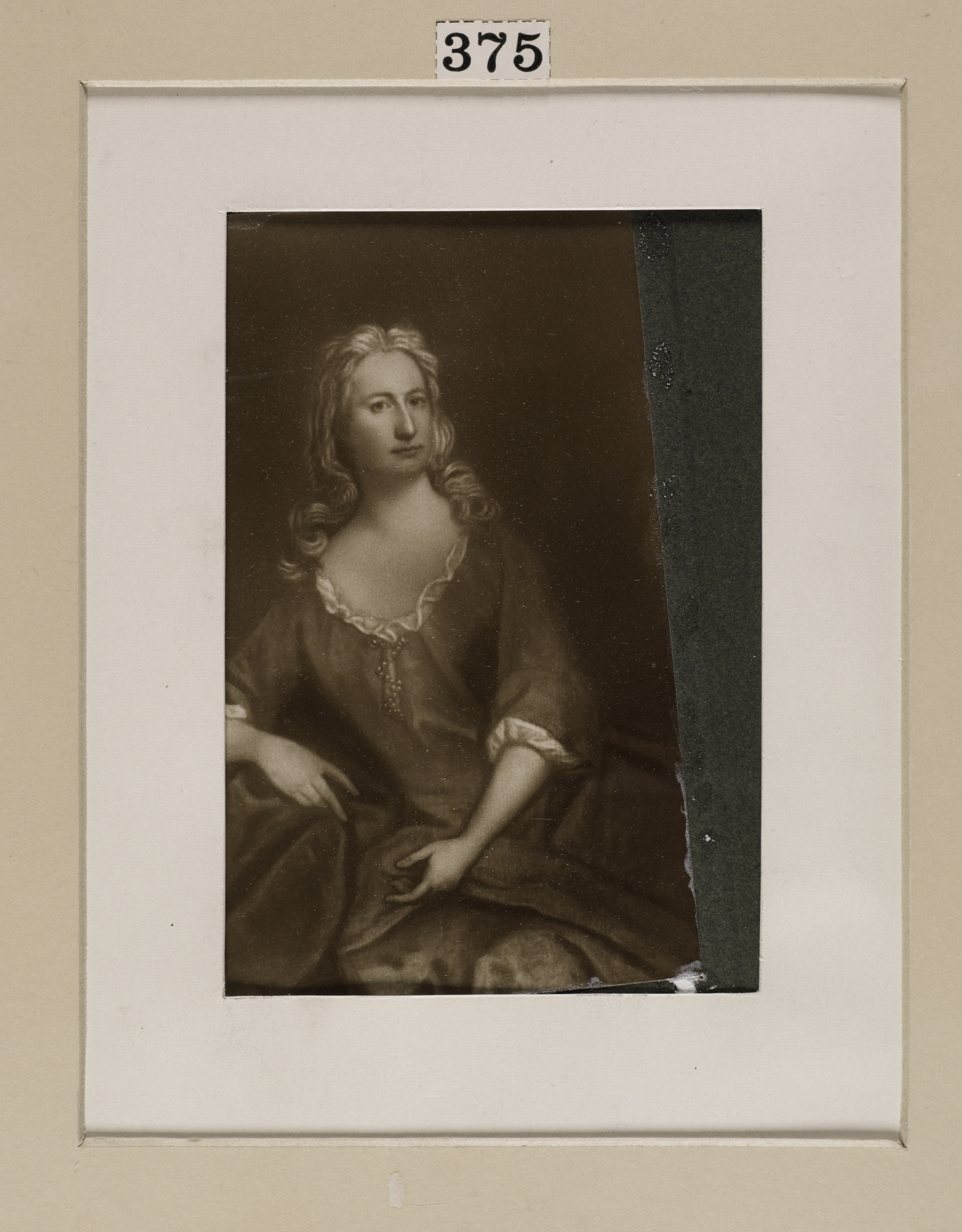 Margaret, Lady Nairne from "A Military History of Perthshire" p. 313 Portrait of woman seated, with long light coloured hair